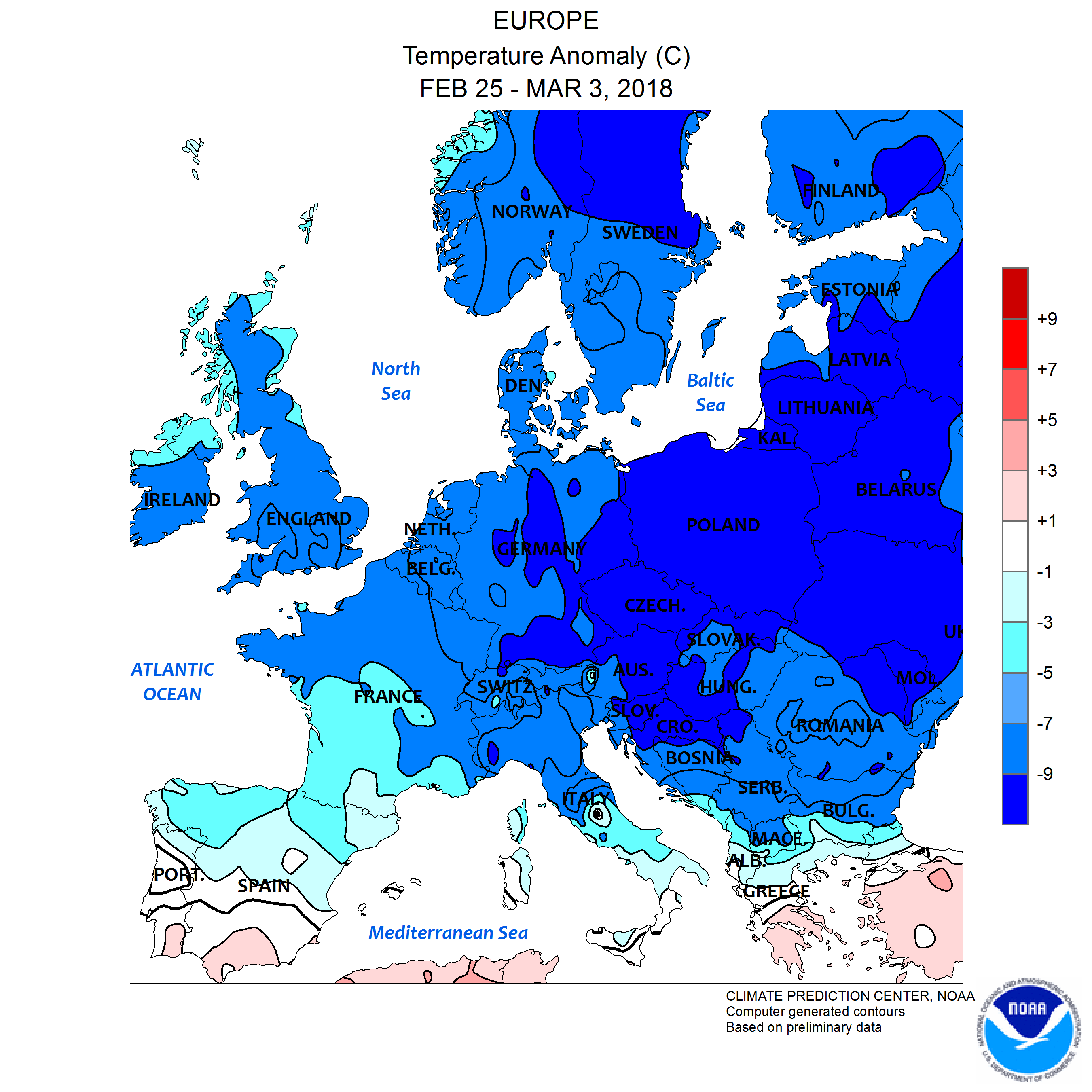 Weekly Regional Climate Map for Europe for 2018-02-25 to 2018-03-03: temperature anomaly